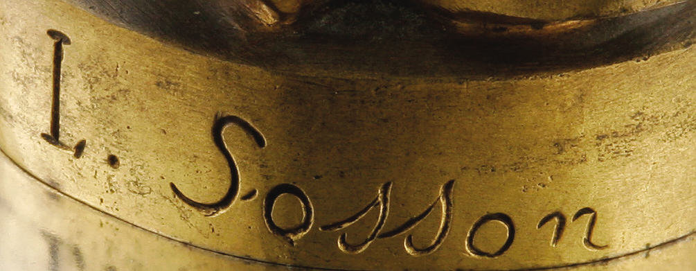 Signature of Louis Sosson (activ 1905—1930)